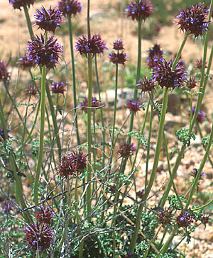 Chia, Salvia hispanica, in bloom. Note that this is actually Salvia columbariae, which is also called Chia! (See Talk:Salvia hispanica).